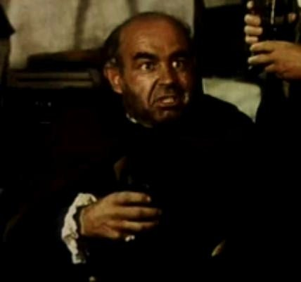 Nestor Paiva in The Inspector General (1949) - cropped screenshot